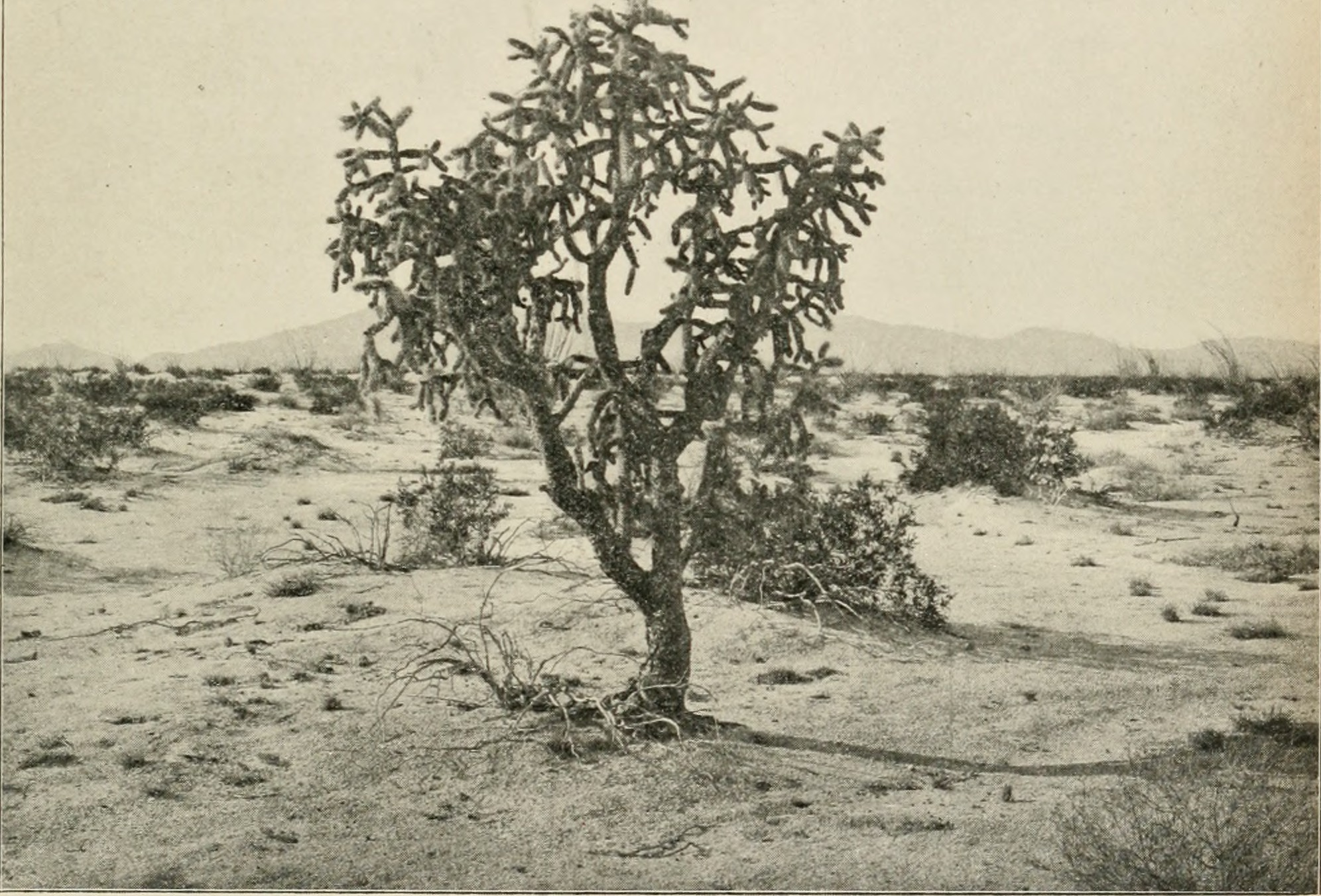 Title: Contributions from the New York Botanical Garden Year: 1899- (1890s) Authors: New York Botanical Garden Subjects: Plants Publisher: New York : The Garden Text Appearing Before Image: i9o4) MAC DOUGAL—DELTA AND DESERT VEGETATION 55 The large number of species with laticiferous juices was especially noticeable, but with the exception of the dozen Cacti no plants with organs for the storage of water were seen, a fact possibly connected with the extremely low precipitation and low water content of the soil at all times. Seeds of a Cenchrus were very abundant and were w.- Text Appearing After Image: - Sam*- *► Fig. 6.—Desert of Baja California, looking westward from beach north of San Felipe Bay; Opuntia, Covillea, and Fouquiera. used by burrowing rodents as a means of fortification of the entrances to their burrows, in the same manner that the joints of the "cholla" are employed elsewhere. A mountain to the southwestward of San Felipe Bay was climbed and a summit reached at an elevation of over iooom. The granite slopes supported a sparse vegetation of such types as Mammillaria, Ephedra, Bur sera micro phylla, Aschpias albicans, Eriogonum infla